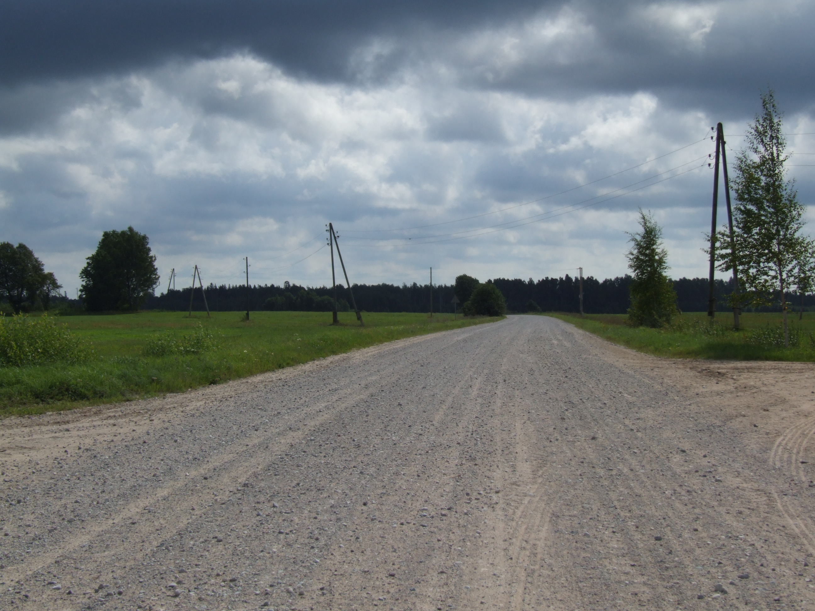 Road P12 in Latvia